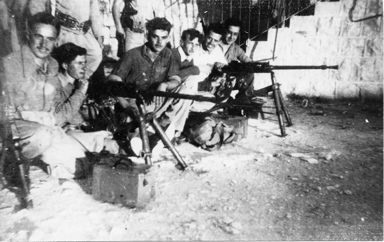 Yiftach Brigade with their Hotchkiss machine guns during the battle for Safed, 1948